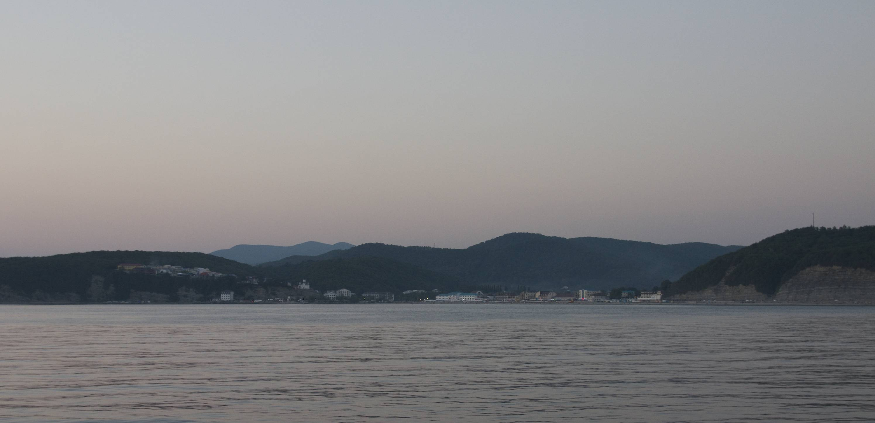 Novomihaylovka - town in Russia, Krasnodarskiy Kray, Tuapsinskiy Rayon